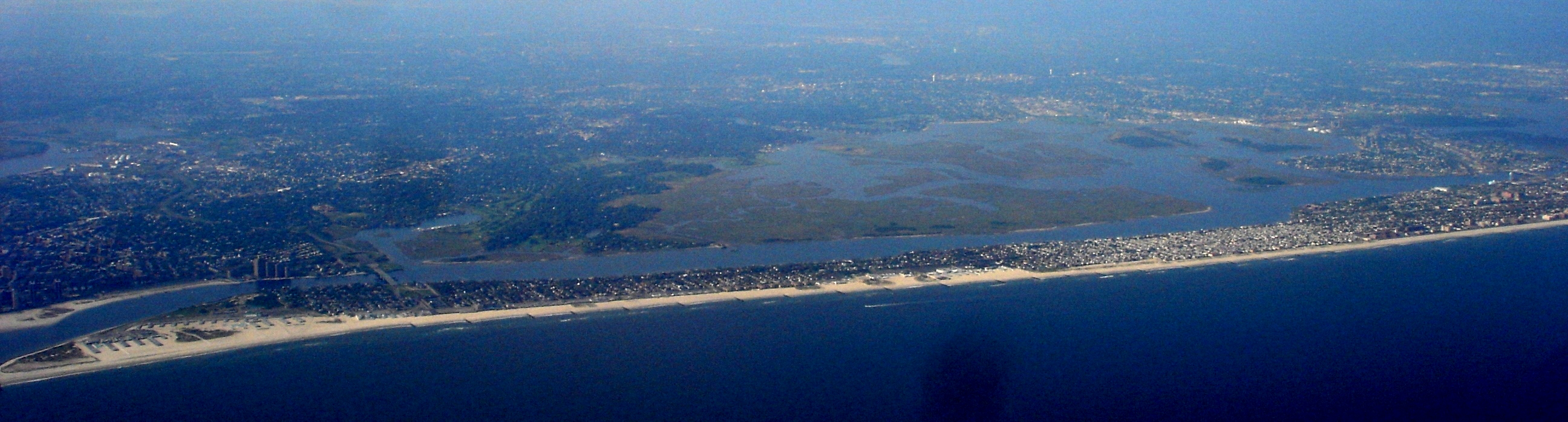 A picture I took from an airplane on my senior trip and cropped